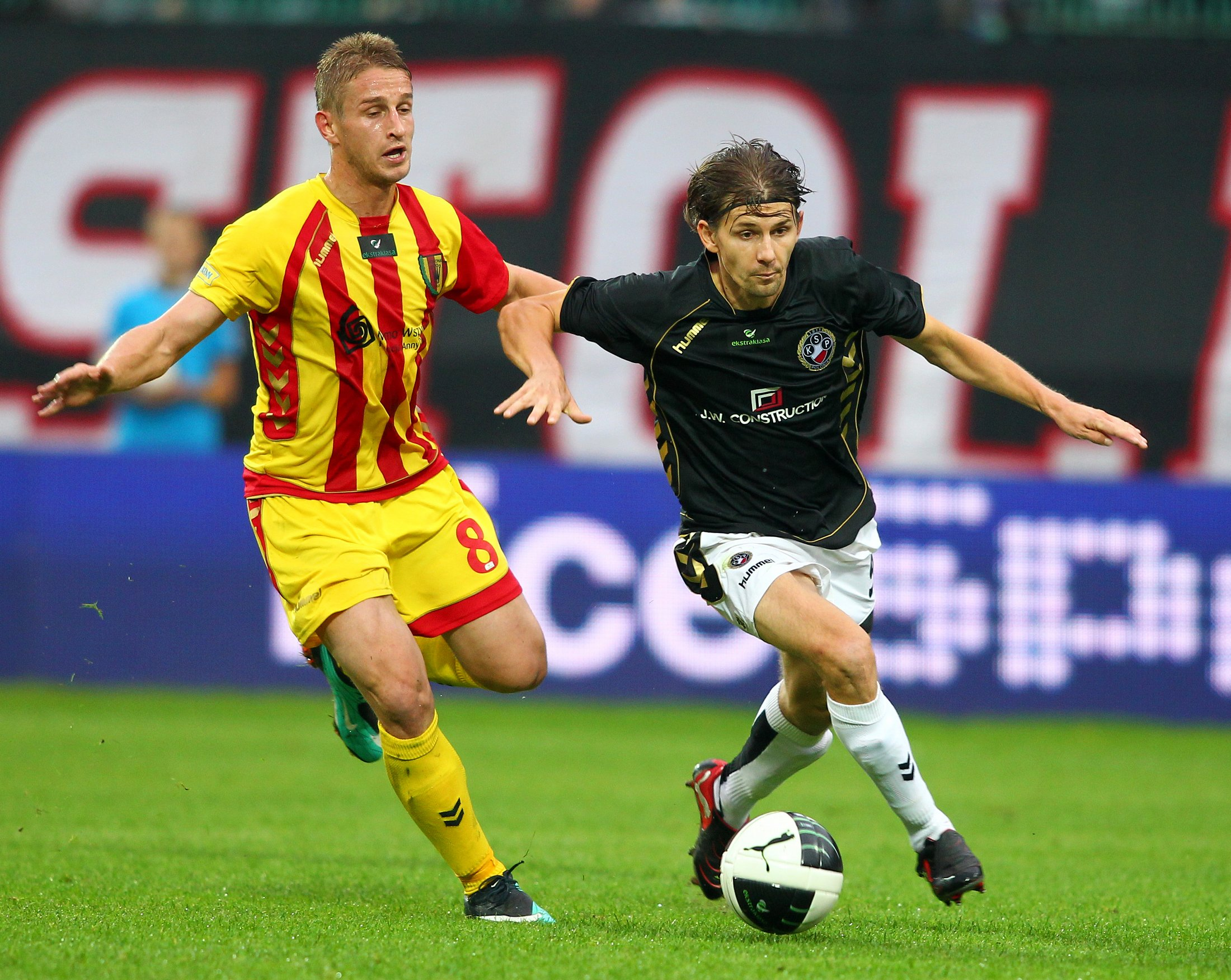 Euzebiusz Smolarek (right) of Polonia Warszawa versus Vlastimir Jovanović (left) of Korona Kielce during an Ekstraklasa match